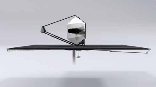 LUVOIR